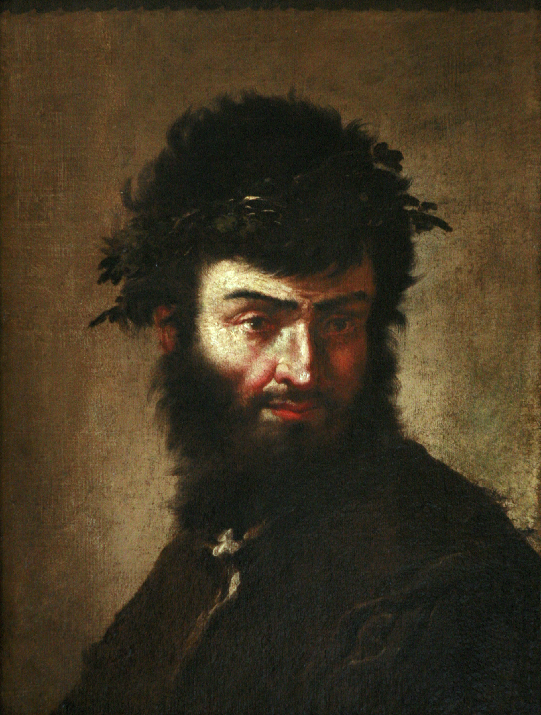 Self-portrait, Salvator Rosa, oil on canvas, circa 1645. Accession number 987.3.7